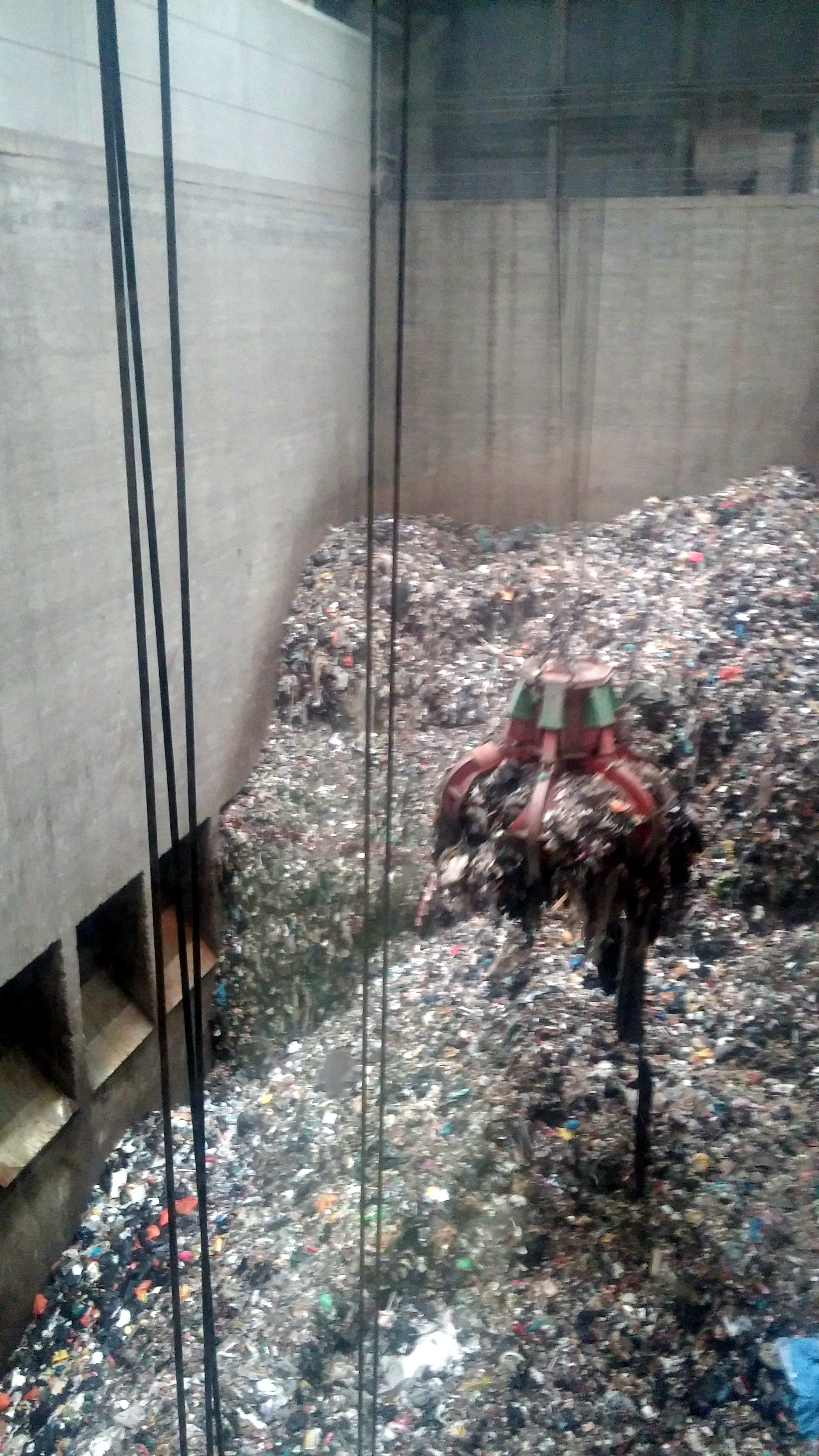 Vantaan jätevoimala is a incinerator in Vantaa, Finland.